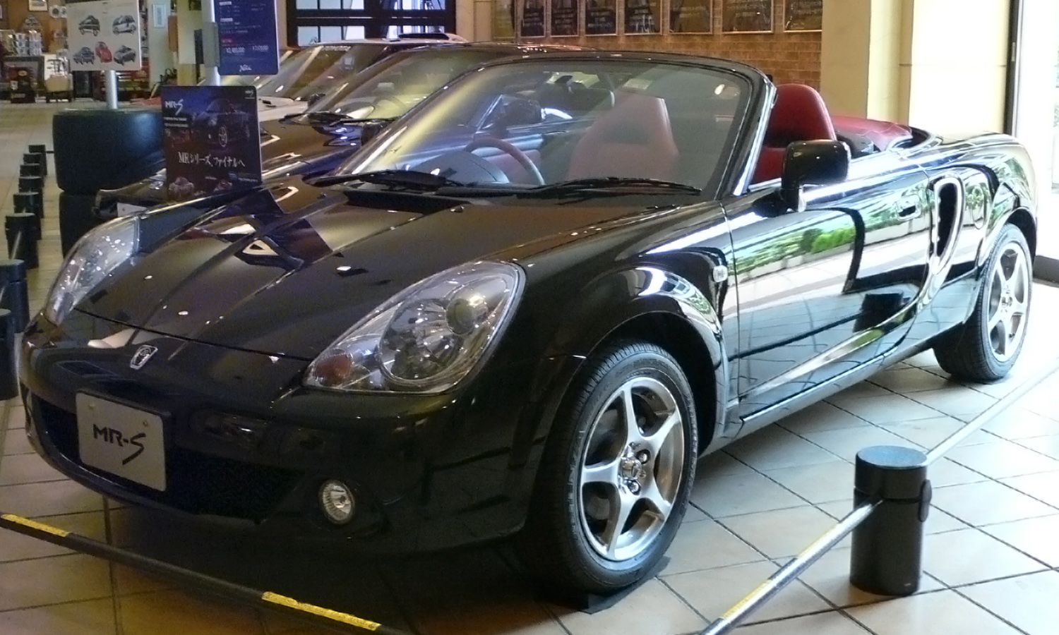 Toyota_MR-S(2002 - 2007)photographed in MEGAWEB